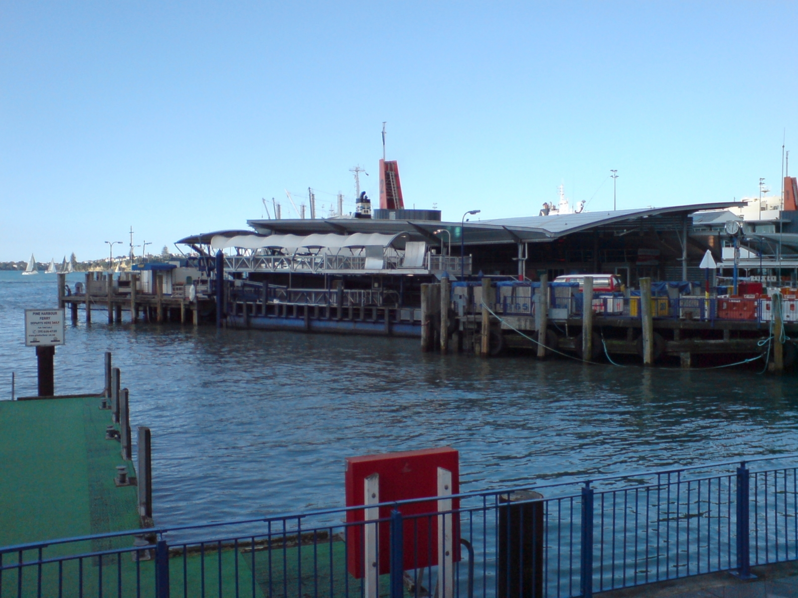 The new part of the ferry terminal building at the bottom of Queen Street, in the Auckland CBD, Auckland City, New Zealand. The red chimneys above the building are actually part of the architecture.